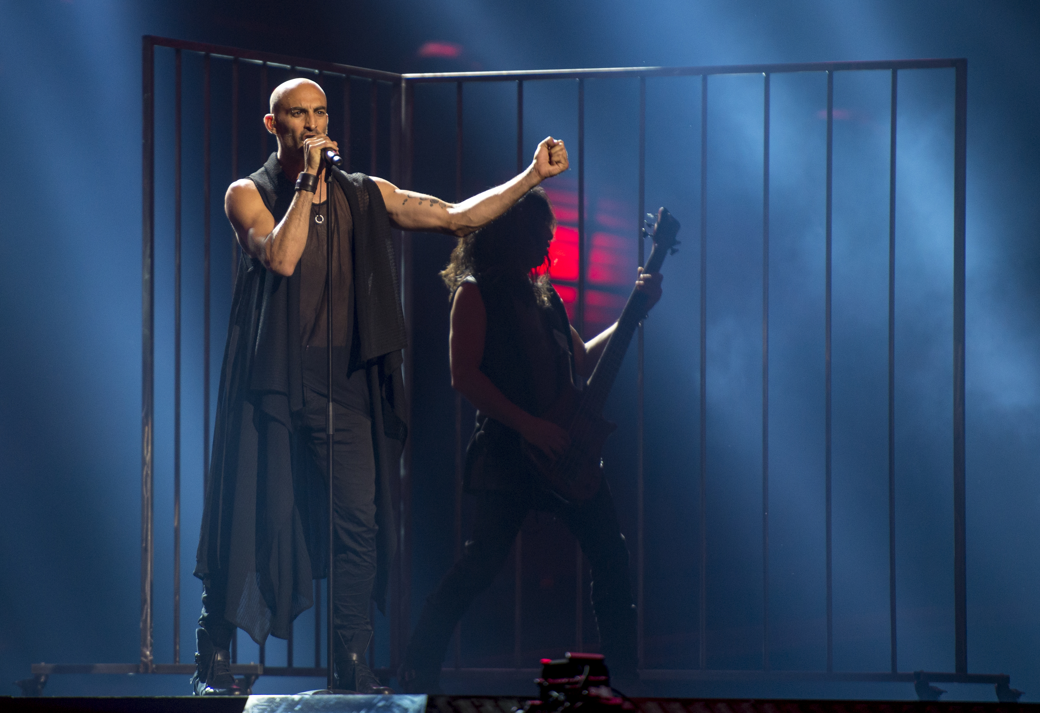 Minus One representing Cyprus with the song "Alter Ego" during a rehearsal before the first semi final of the Eurovision Song Contest 2016 in Stockholm. (Help translate this text)